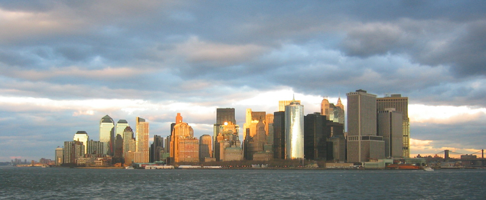 New York City: Manhattan, from the Staten Island Ferry